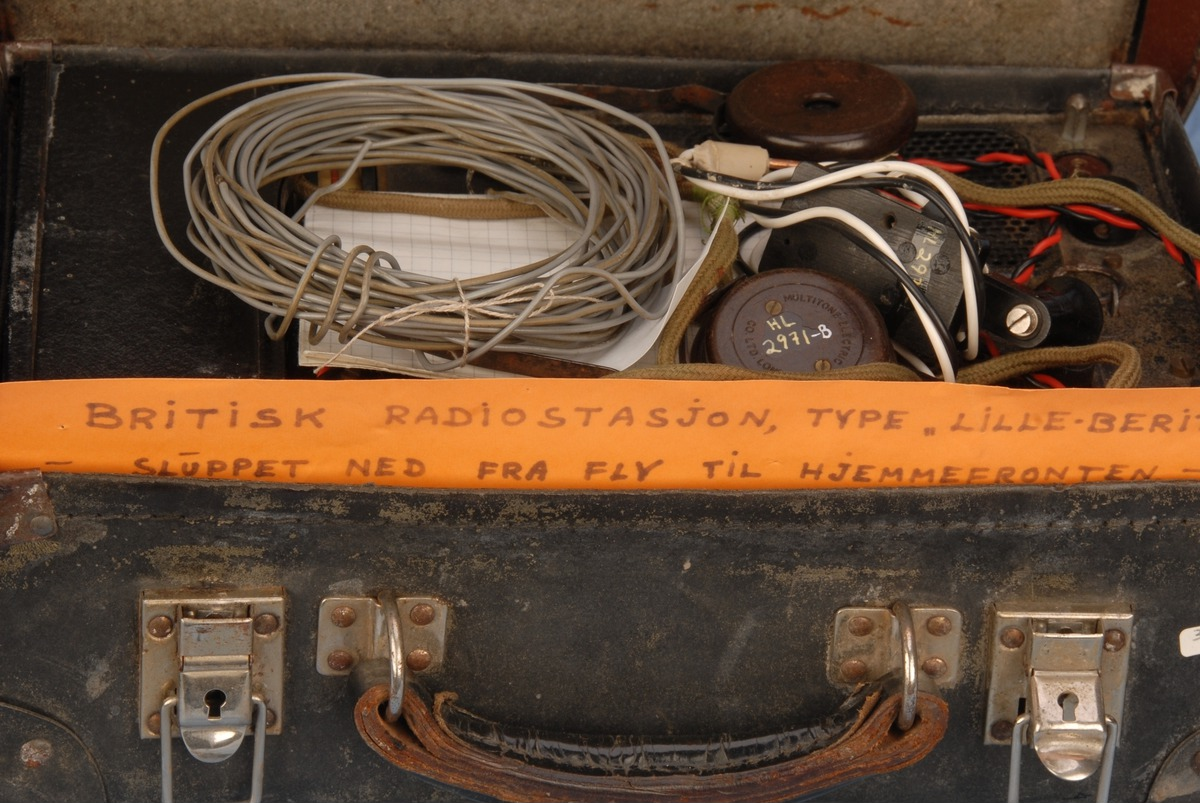 British radio transmitter (Lille-Berit) provided to Norwegian resistance during World War II.